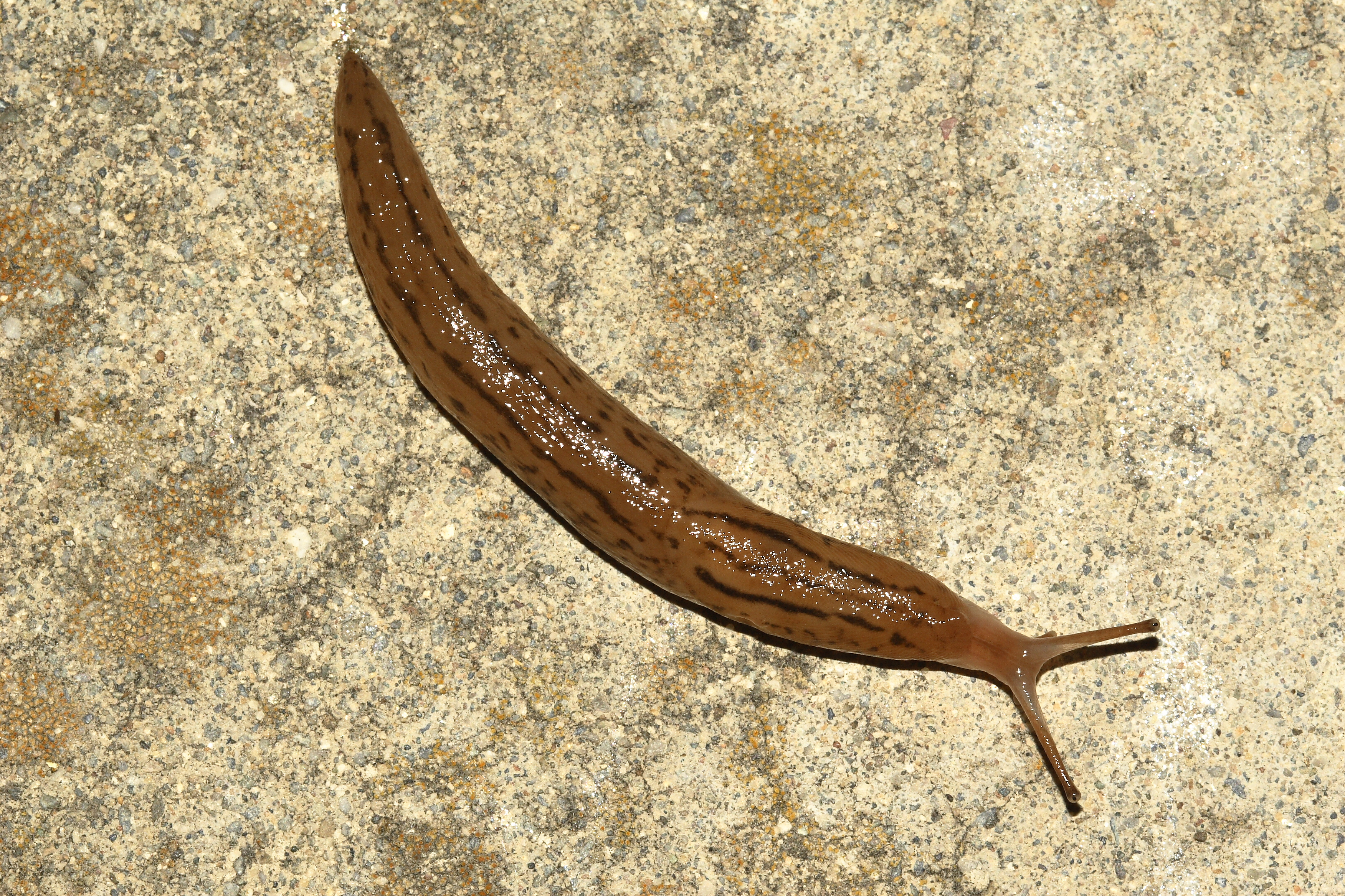 Picture of a slug in the genus Ambigolimax. Photo taken in Fremont, CA, USA.